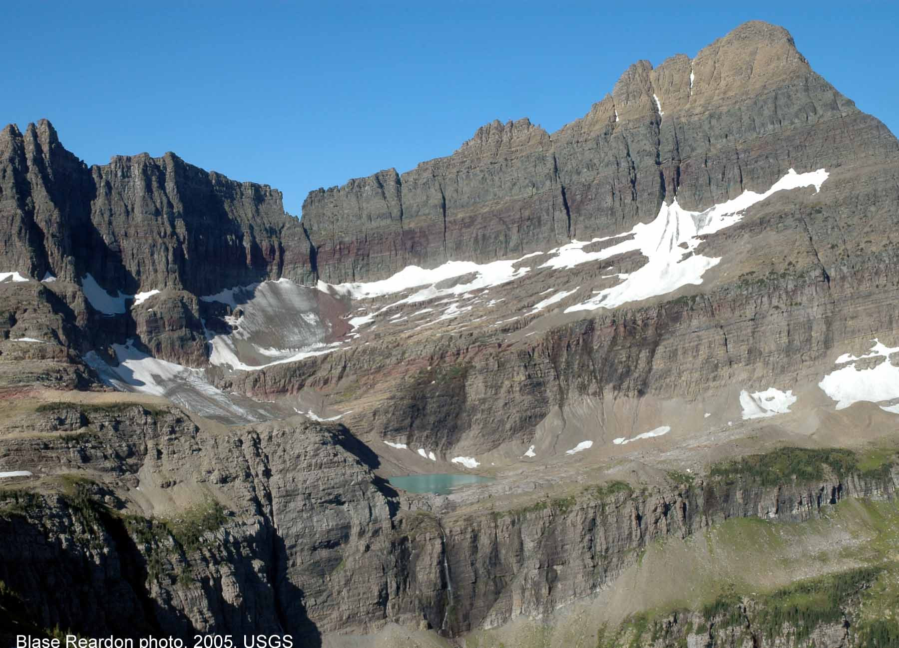 Shepard Glacier located in Glacier National Park, Montana, USA as photographed in 2005.